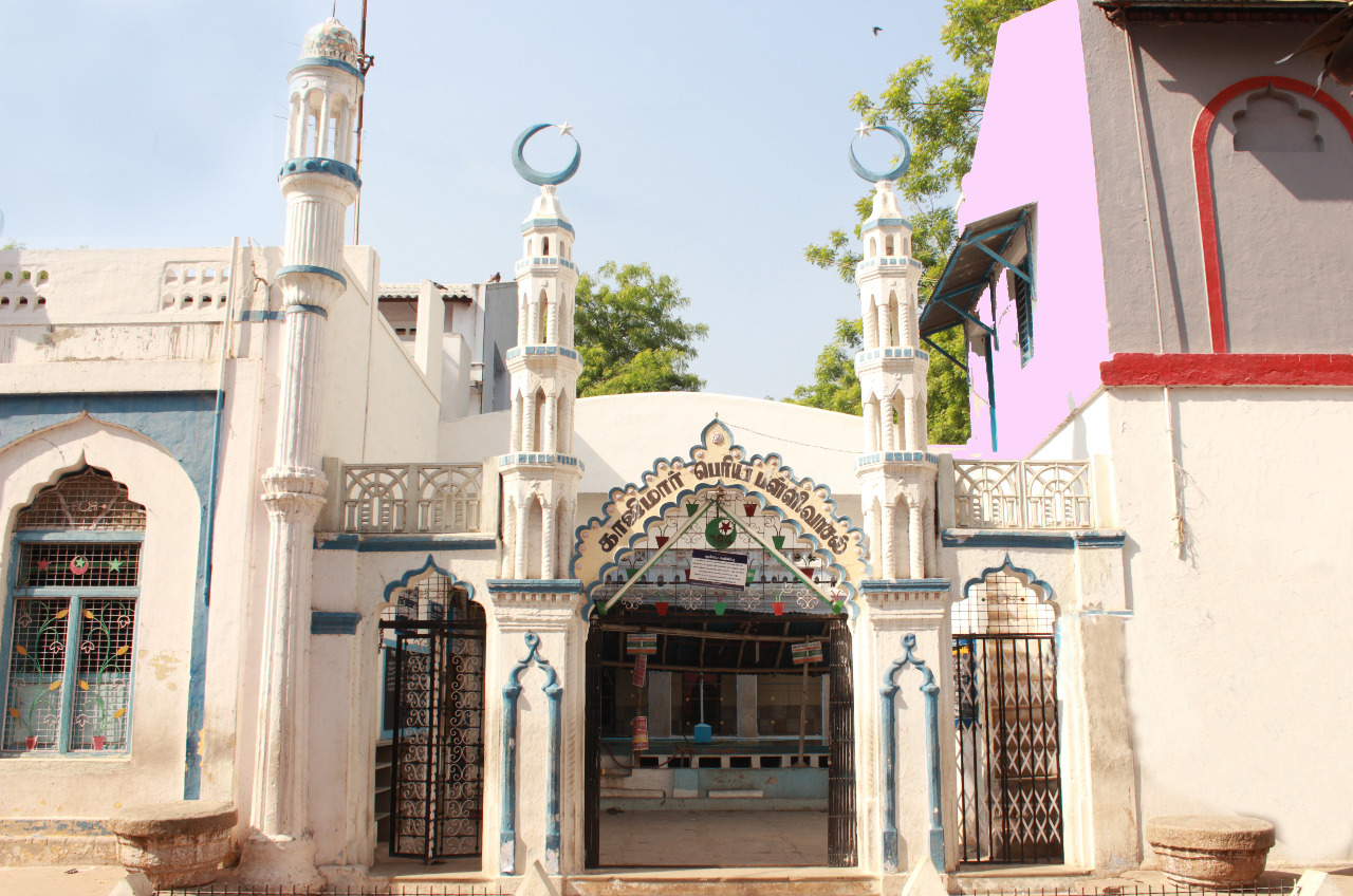 قاضي مسجد